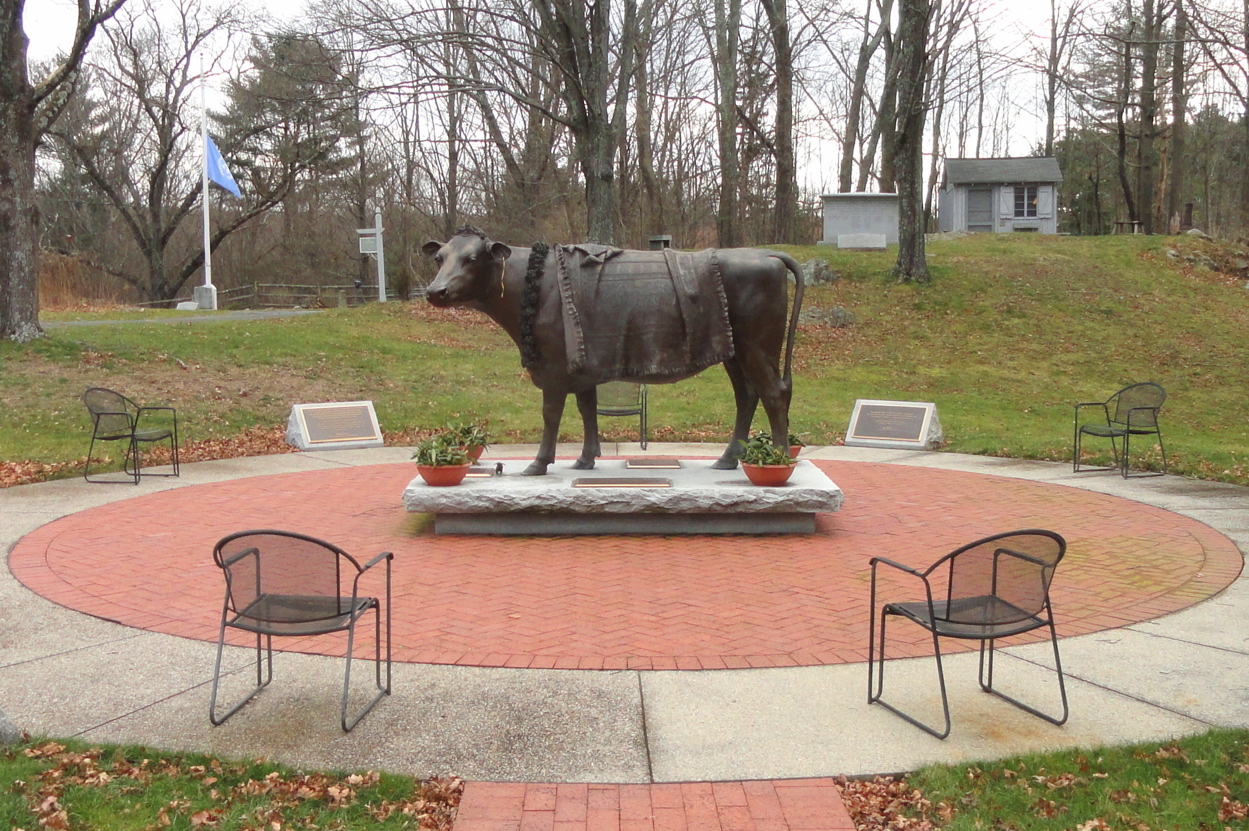 Monument called "Sacred Cow Animal Rights Memorial," in Sherborn, Massachusetts. The memorial is dedicated to Emily the Cow, who died in 2004. "In 1995, Emily the Cow escaped from a slaughterhouse in Hopkinton, MA by jumping a gate. During her 40 days eluding capture, Emily was aided by a sort of ad hoc underground railroad of townspeople. She found lasting refuge at Sherborn's 'Peace Abbey,' and became a charismatic spokescow, espousing a meat-free diet for humans. She didn't talk, but her huge eyes and friendly disposition inspired many who met her. "When Emily died in 2004, her owners commissioned artist Lado Goudjabidze to sculpt a life-sized likeness to stand above her grave -- between statues of Mother Teresa and Gandhi. Emily was buried in April 2005, and the statue was dedicated soon after, on Earth Day. "The statue is labeled as the 'Sacred Cow Animal Rights Memorial.'" [1]